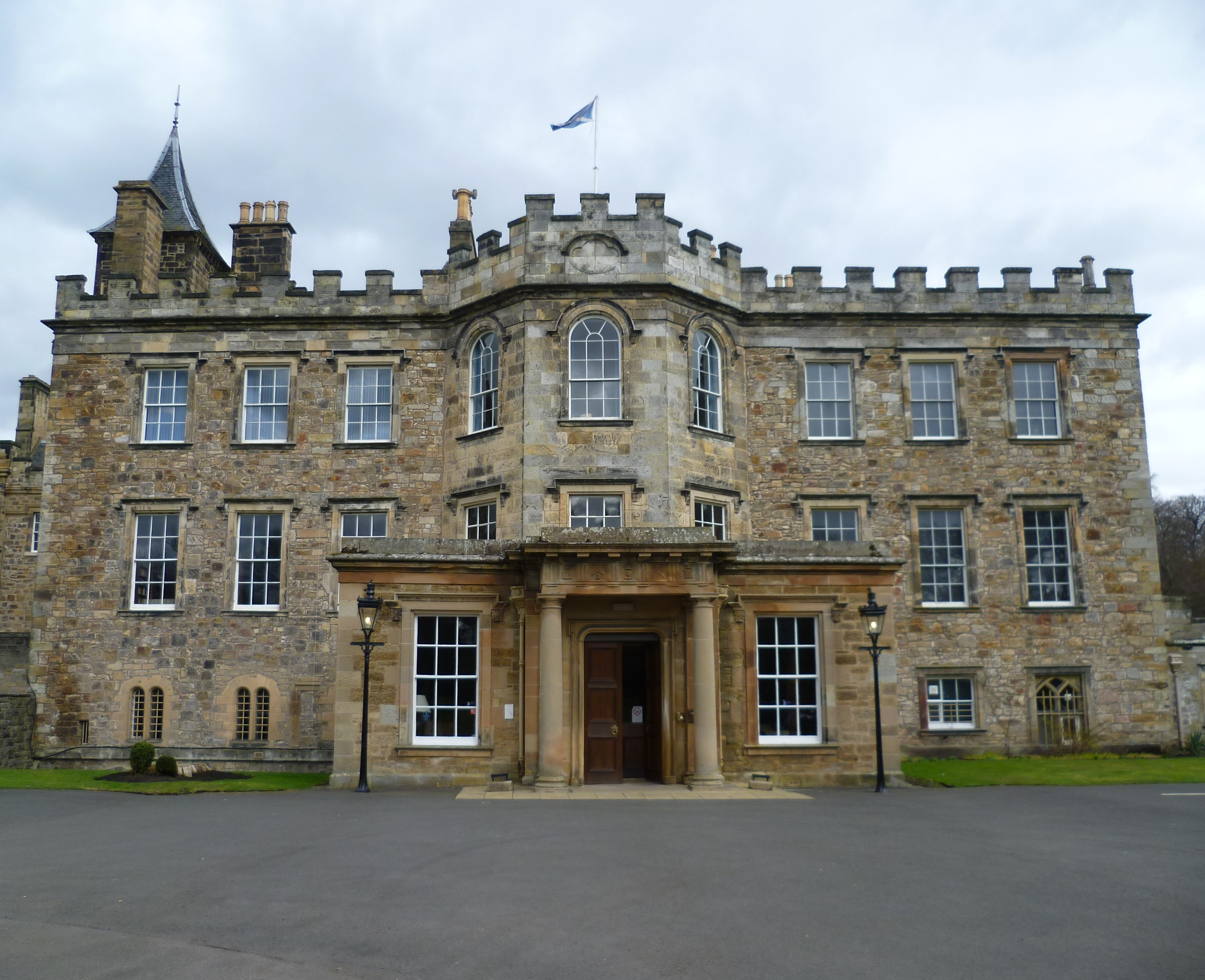 In the late 1930s, Philip Kerr, 11th Marquess of Lothian, bequeathed his house to the nation for the express purpose of creating a residential adult college to provide a non-vocational education for students of a working-class background. The College opened in 1937 and continues to serve its original purpose. Its warden between 1949 and 1955 was the poet Edwin Muir.